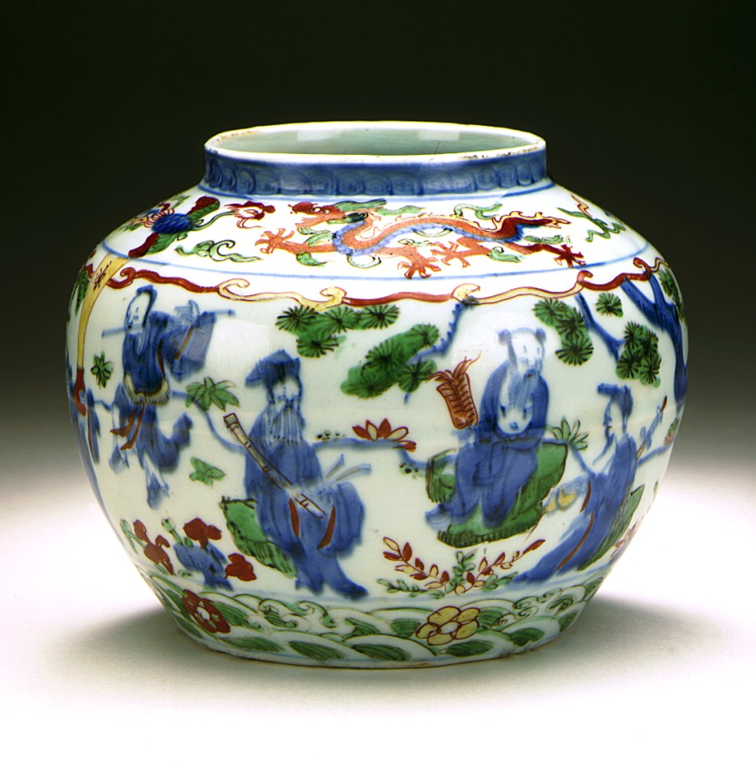 China, Jiangxi Province, Jingdezhen, Chinese, Ming dynasty, Wanli mark and period, 1573-1620 Furnishings; Serviceware Wheel-thrown porcelain with underglaze blue, clear glaze, and overglaze painted enamel decoration (wucai) The Ernest Larsen Blanck Memorial Collection (53.41.6a) Chinese Art